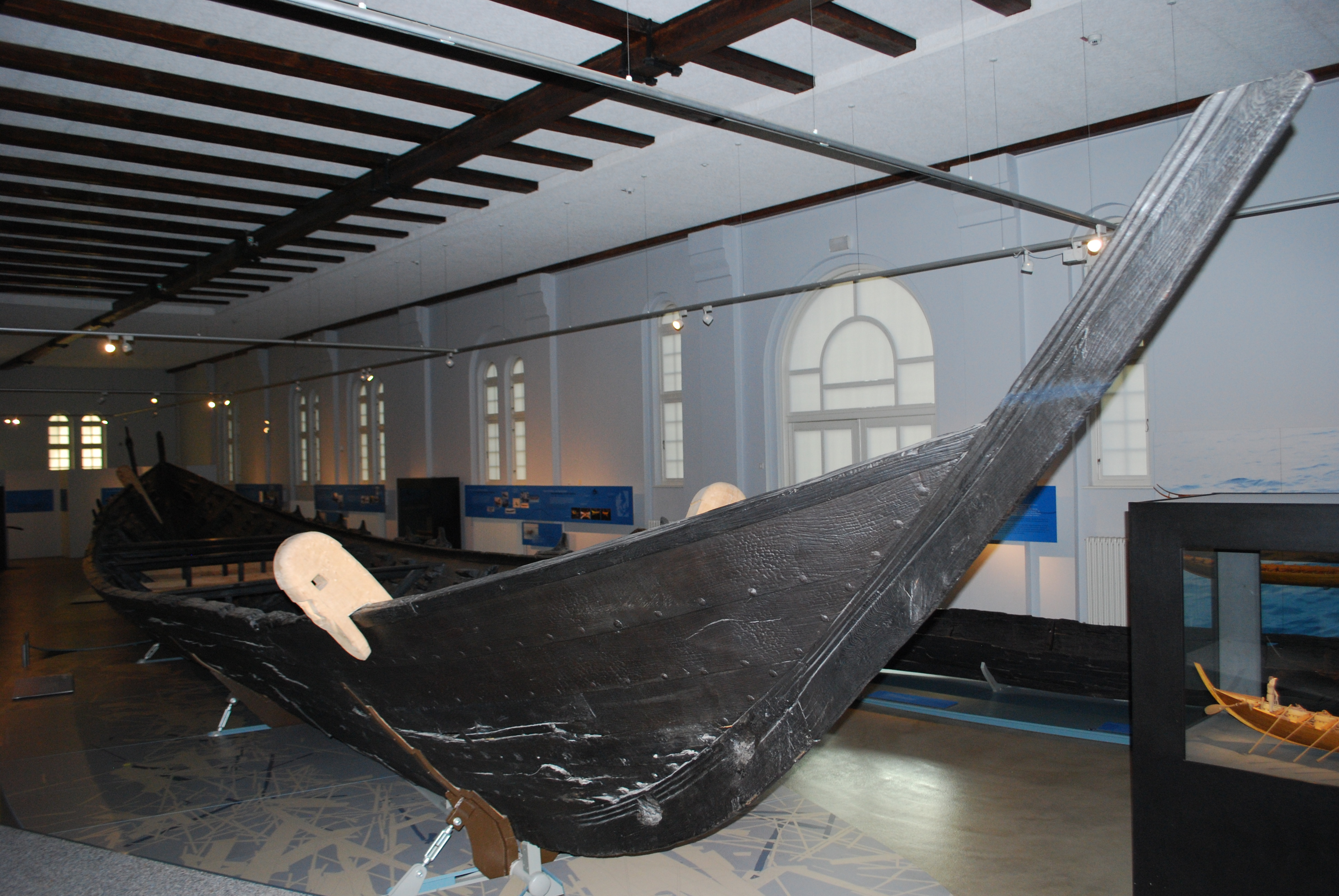 Nydam Boat, Gottorp Slot